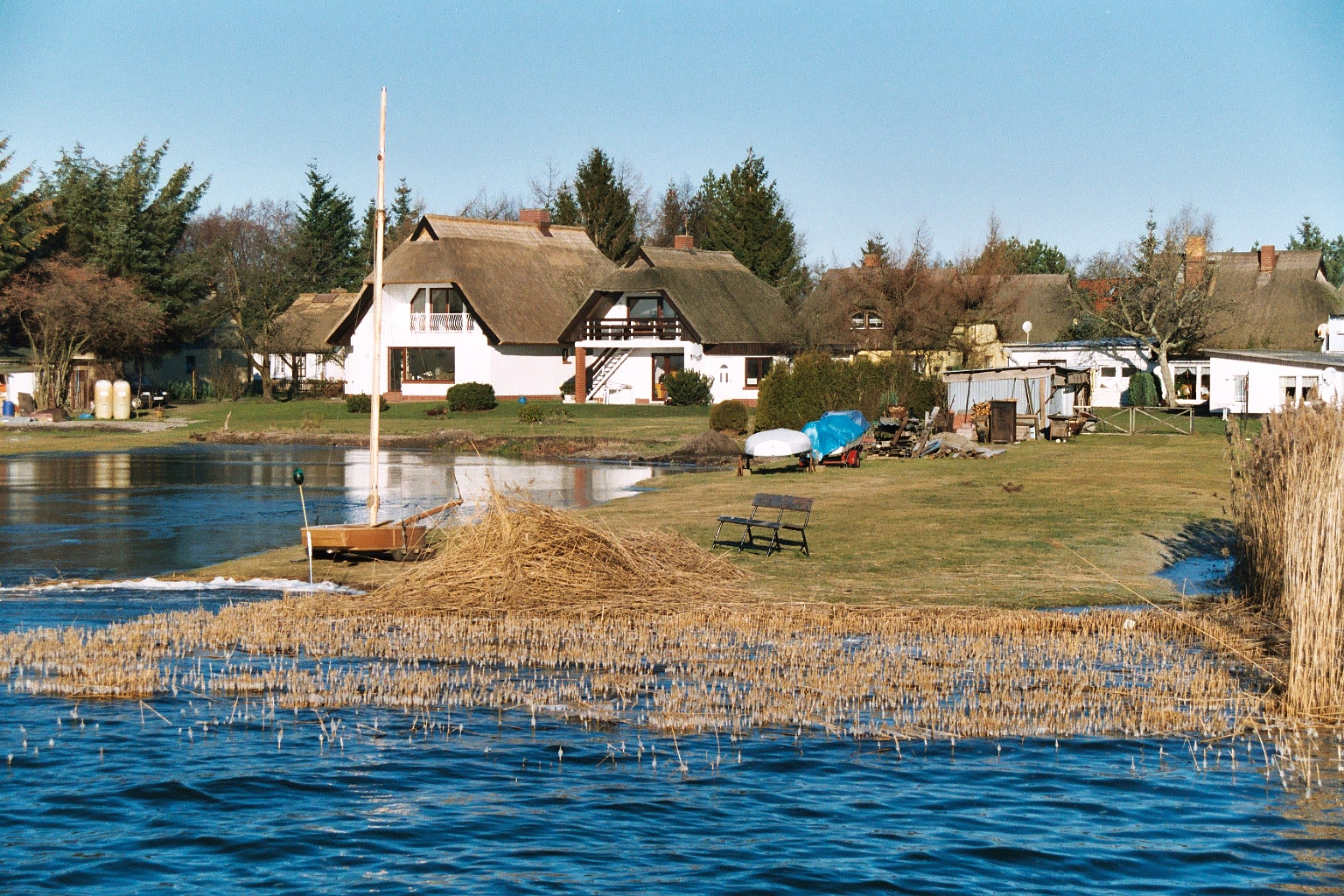 Born am Darß, near the inner bay